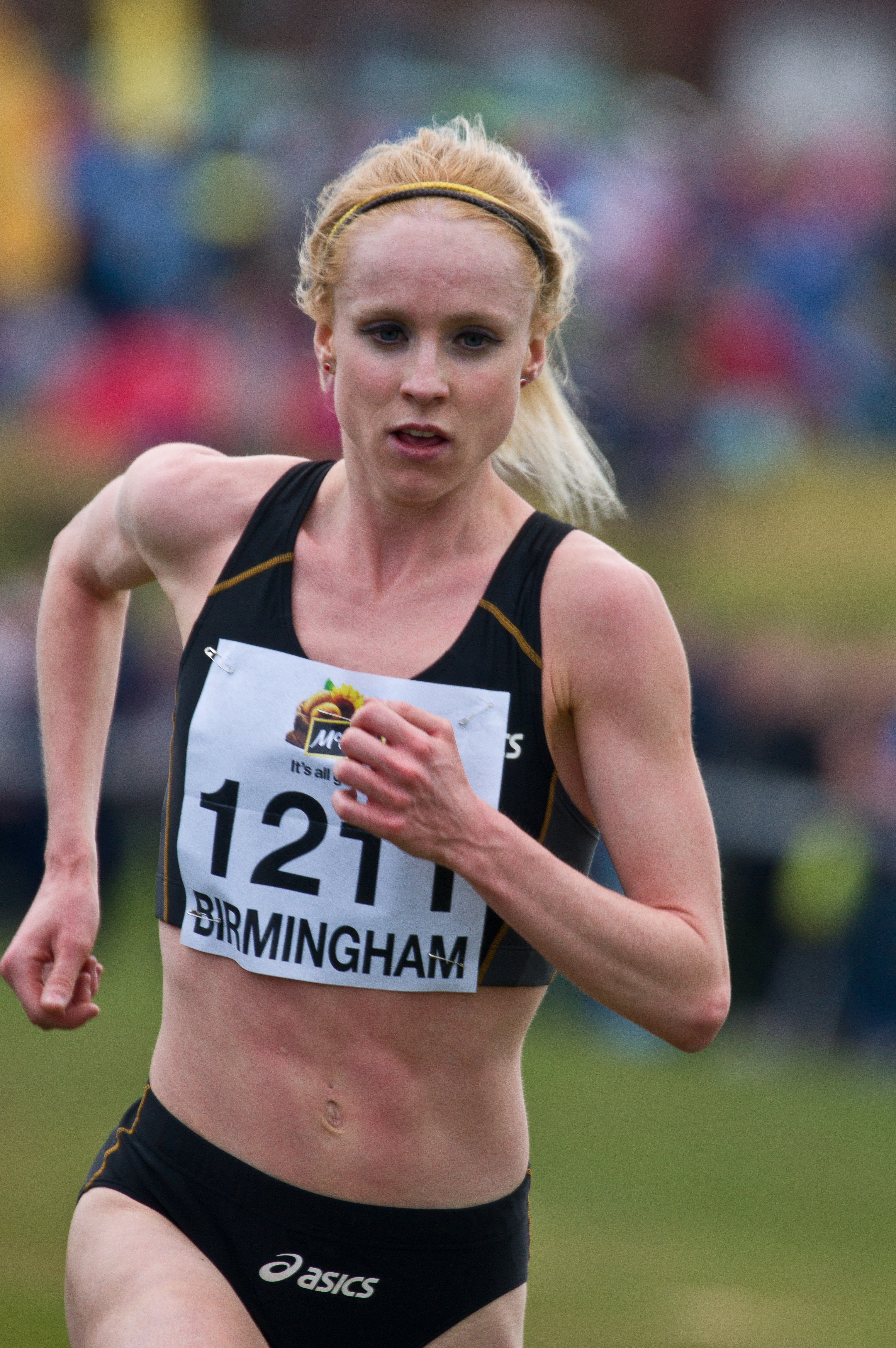 Gemma Steel at the 2012 Inter counties cross country